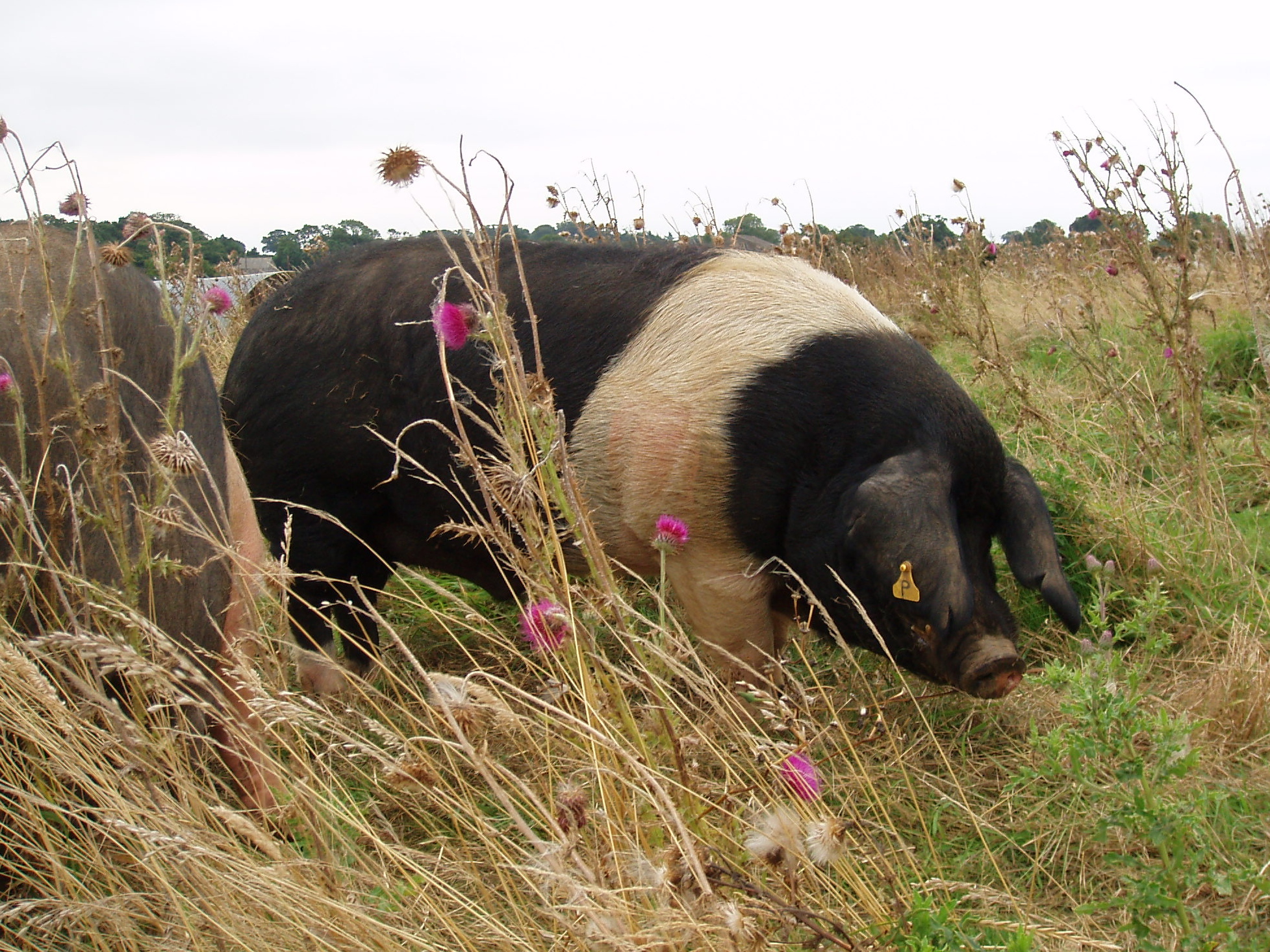 An Essex breed boar (male pig)